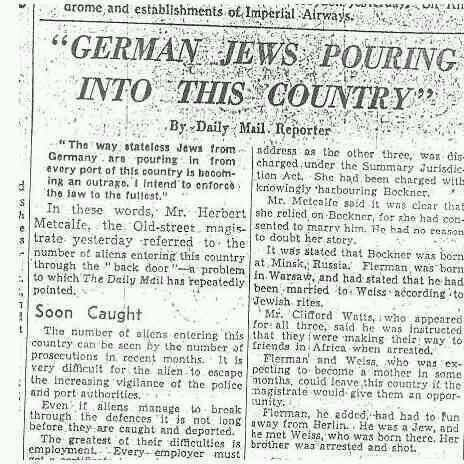 "The way stateless Jews and Germans are pouring in from every port of this country is becoming an outrage. I intend to enforce the law to the fullest." In these words, Mr Herbert Metcalde, the Old Street Magistrate yesterday referred to the number of aliens entering this country through the 'back door' -- a problem to which The Daily Mail has repeatedly pointed. The number of aliens entering this country can be seen by the number of prosecutions in recent months. It is very difficult for the alien to escape the increasing vigilance of the police and port authorities. Even if aliens manage to break through the defences, it is not long before they are caught and deported. The greatest of their difficulties is employment [clipping cuts off]